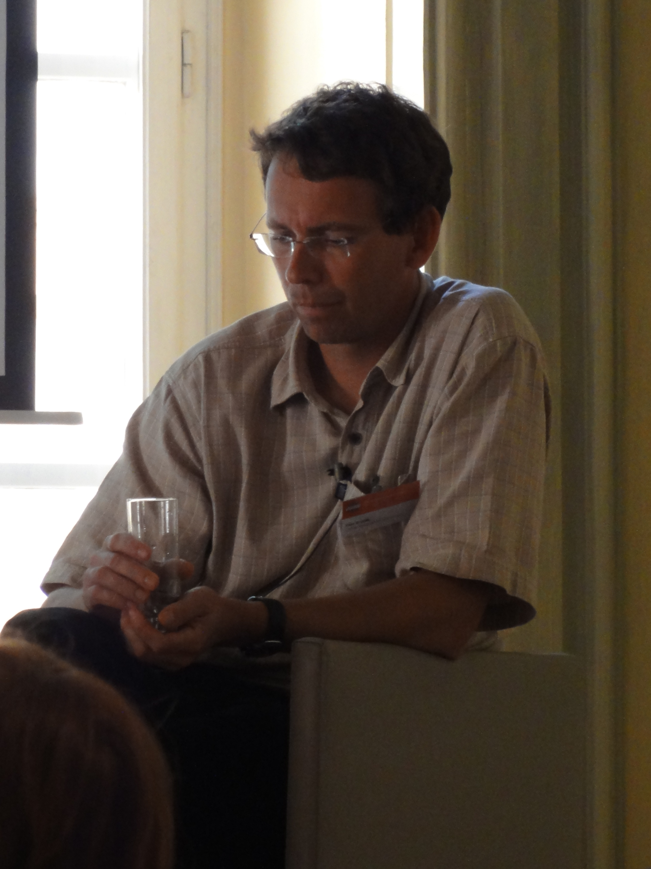 Petr Drulák at a conference "Federalism and Europe" held by Václav Havel Library at the University of New York in Prague.